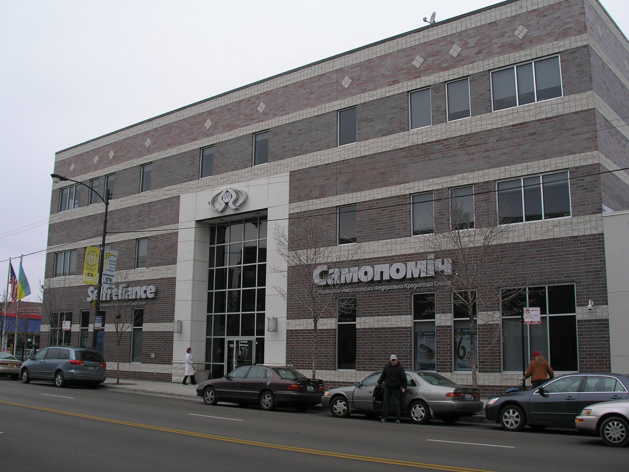 The Ukrainian Selfreliance Bank in Ukrainian Village, Chicago.